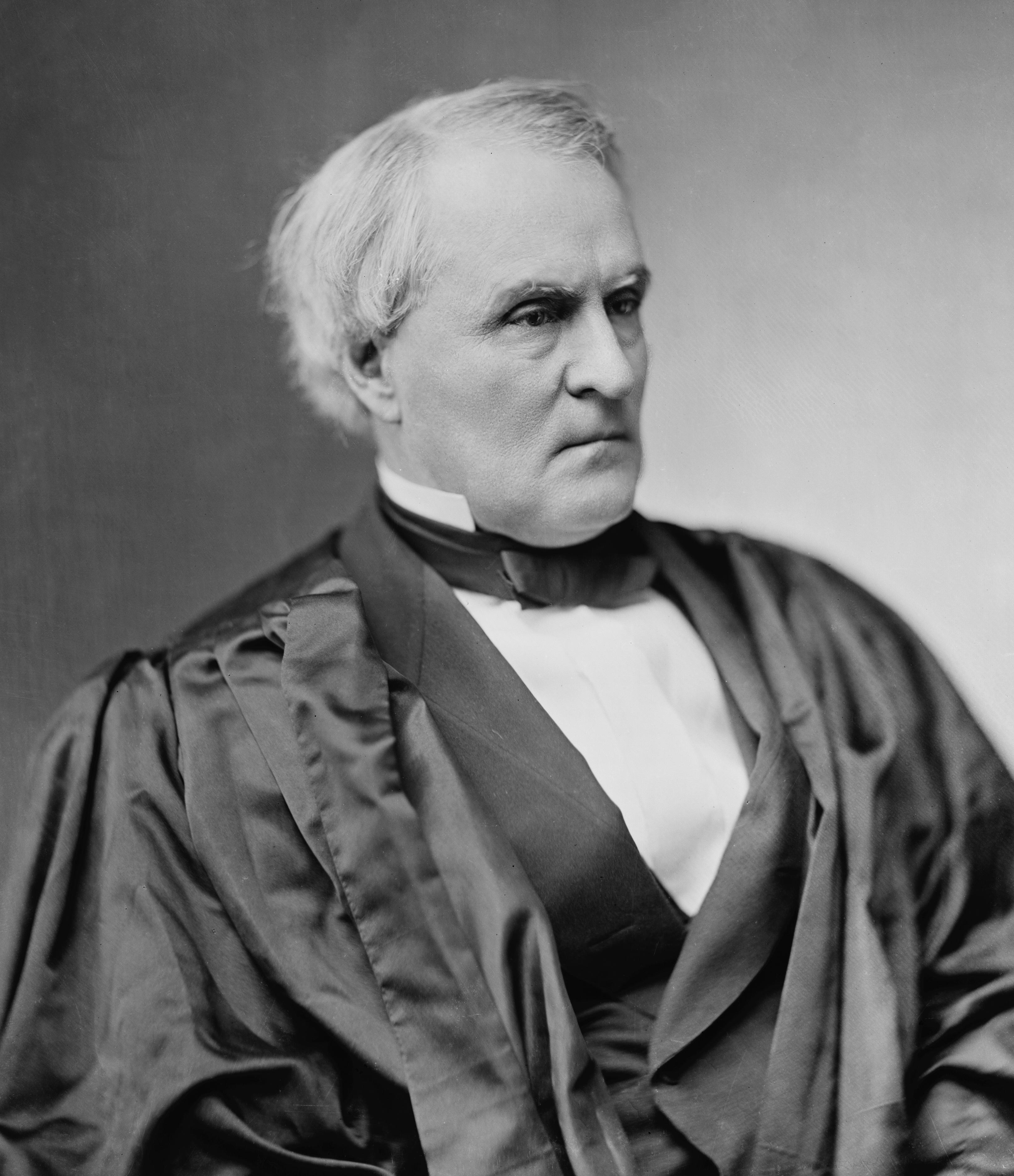 William Strong (judge). Library of Congress description: "Strong, Judge (U.S. Supreme Court)".